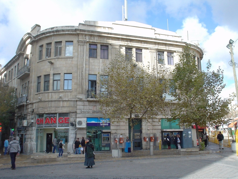 sansur building, Jerusalem